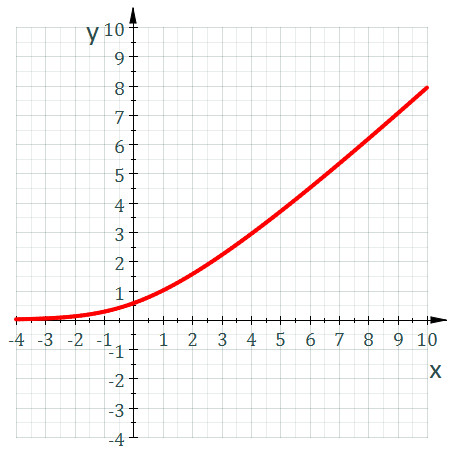 A graph of the Wright Omega function on the Real line, made by myself with MuPAD.